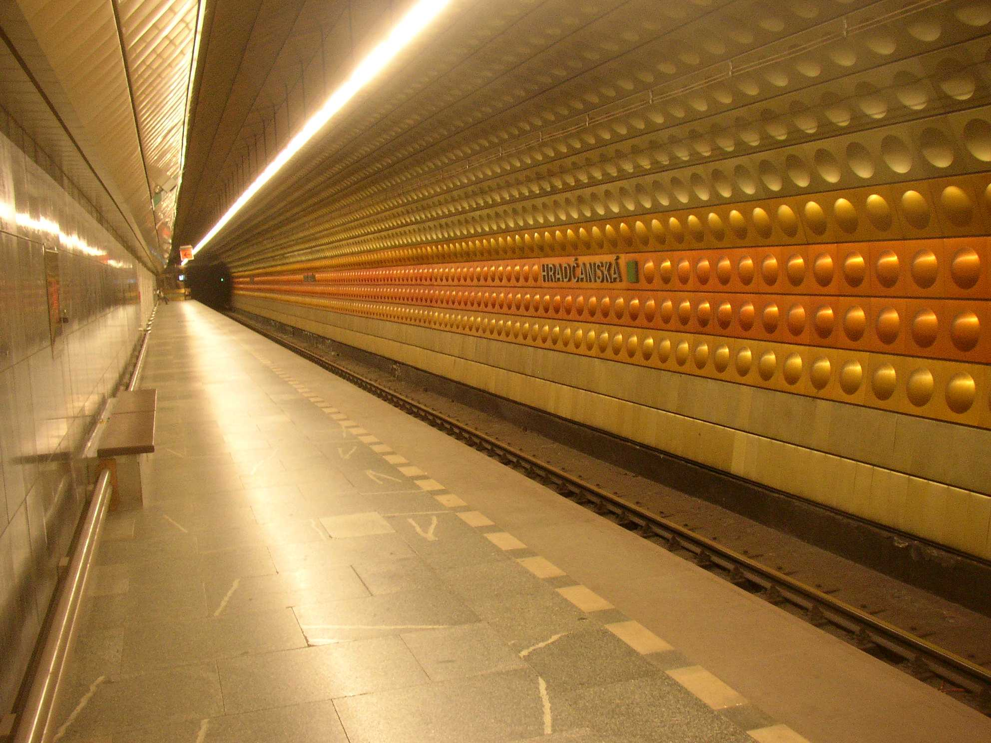 Metro in Prague, Czech Republic Hradčanská station, line A